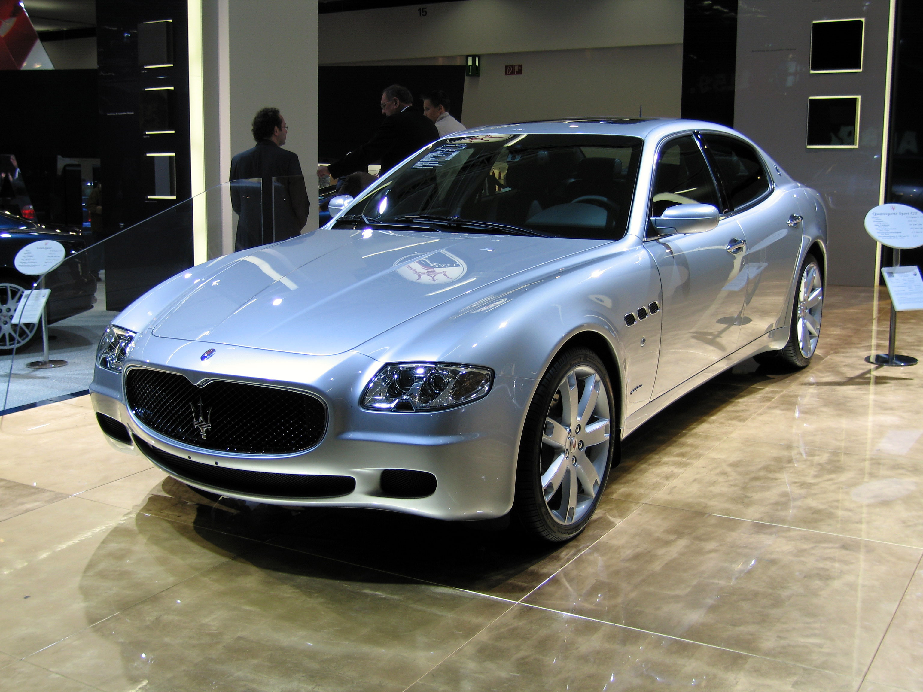 Maserati Quattroporte Sport GT at the IAA 2005